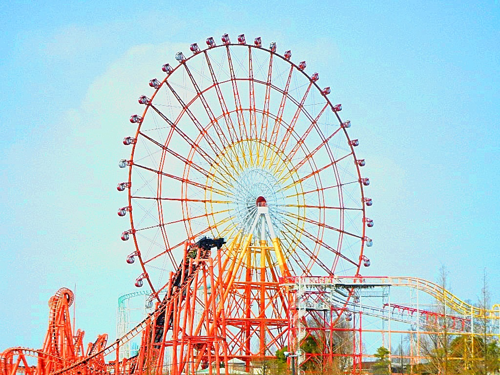 Greenland-Kanransha. 荒尾市にあるテーマパーク「グリーンランド」の大観覧車, Arao.